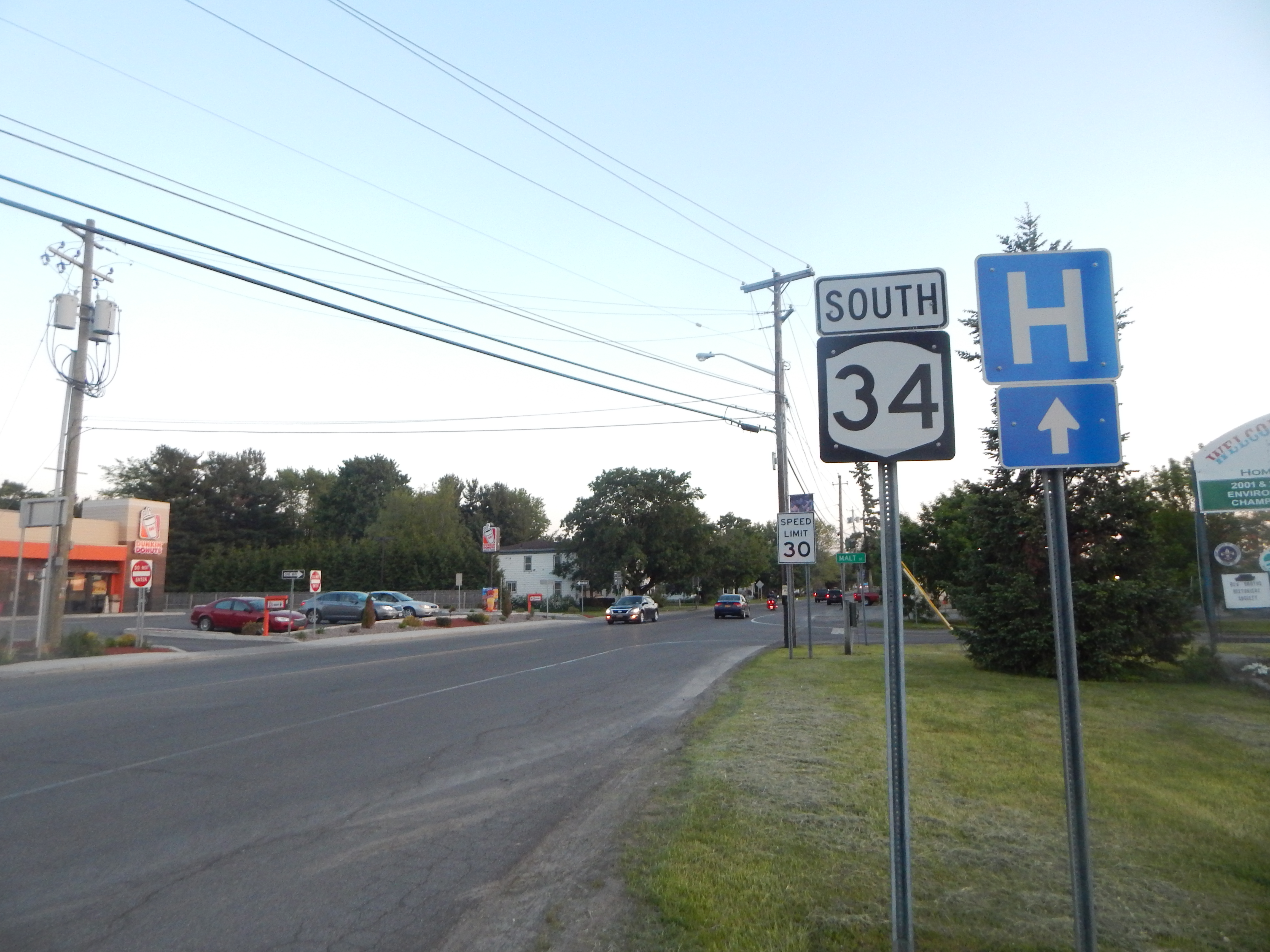 Route 34 southbound entering Weedsport, New York.